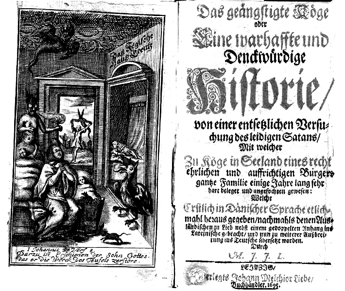 Das geängstigte Köge oder Eine warhaffte und Denckwürdige Historie, von einer entsetzlichen Versuchung des leidigen Satans, Mit welcher Zu Köge in Seeland eines ... Bürgers gantze Familie ... sehr hart beleget und angefochten gewesen, Welche Erstlich in Dänischer Sprache ... heraus gegeben, nachmahls ... nebst einem gedoppelten Anhang ins Lateinische gebracht, und nun ... ins Teutsche übersetzt worden. Durch M. J. J. L. [und ... Joh. Brunsmann ... zusammen getragen und auffgesetzt hat] (Leipzig: Liebe, 1695 [appeared] 1697 Kollation: [125] Bl. : Kupfert., Tbl. r&s. ; 12° Fingerprint: e-M. ren, u-n, tebe 1695A